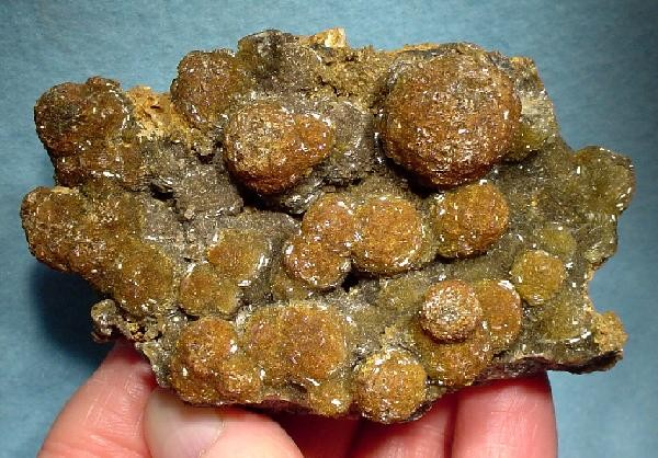 Smithsonite, Greenockite Locality: Gobbler Mine, Joplin Field, Tri-State District, Jasper County, Missouri, USA (Locality at ) Size: 9.0 x 5.7 x 3.7 cm. Lustrous botryoids of bladed, reddish-brown smithsonite form an aesthetic, old-time specimen from the Tri-State District of Missouri. This is a solid, two-sided crust of smithsonite and the botryoids on the backside are coated with yellow-tan greenockite. Bruising on some of the botryoids on the front are noted, but are really not very detracting on this fine old-timer, which comes from an UNCOMMON Joplin locality - the Gobbler Mine. Ex. George Elling Collection.